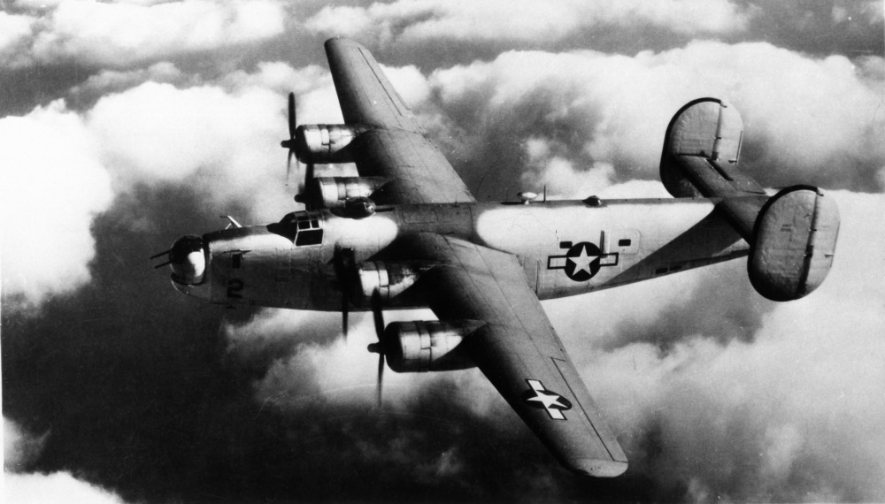 PictionID:40972276 - Title:Liberator Consolidated PB4Y-1 - Catalog:15_002727 - Filename:15_002727.tif - Image from the Charles Daniels Photo Collection album "US Army Aircraft."----PLEASE TAG this image with any information you know about it, so that we can permanently store this data with the original image file in our Digital Asset Management System.----SOURCE INSTITUTION: San Diego Air and Space Museum Archive